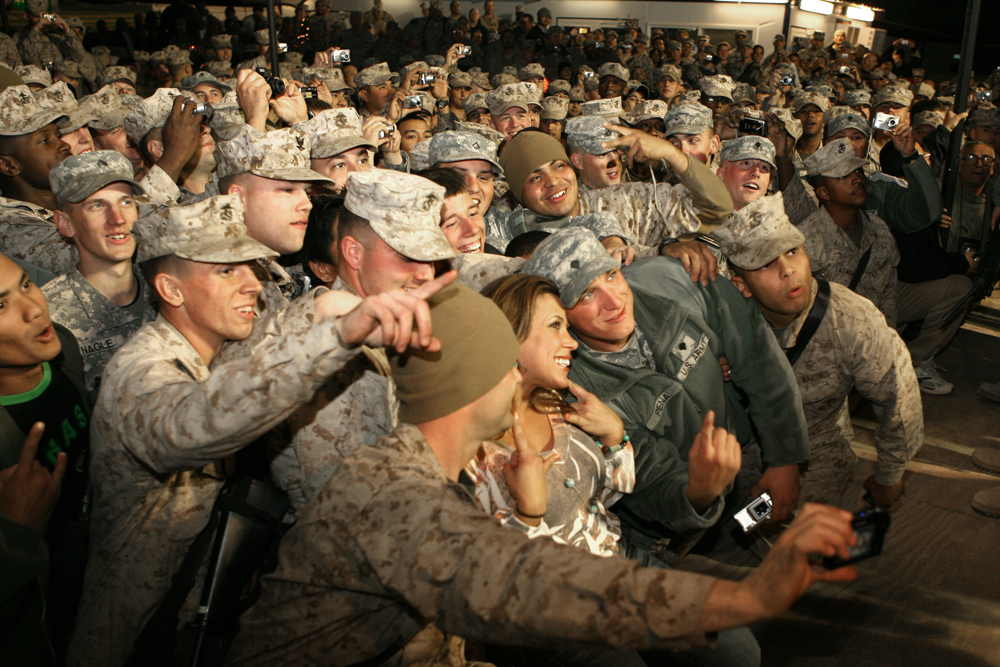 Mickie James entertaining the troops at Camp Ramadi in Iraq